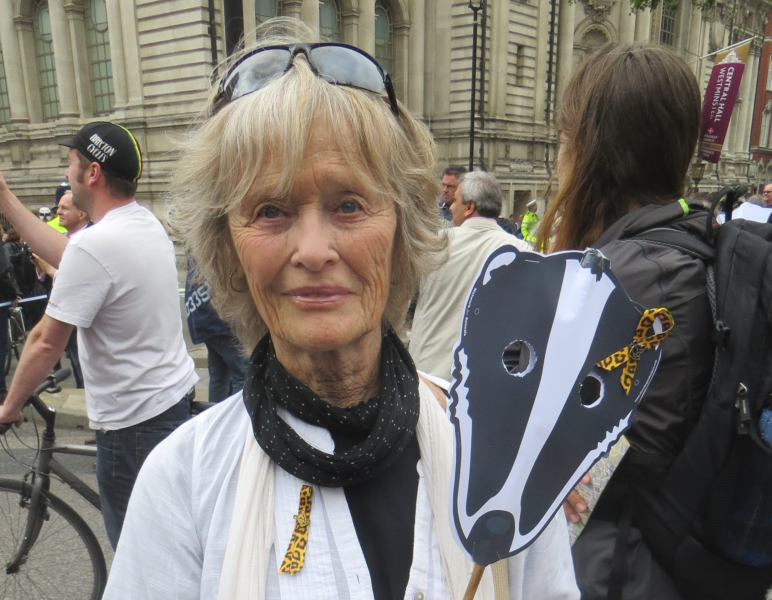 Virginia McKenna at an anti badger cull demo Westminster, London June 2013